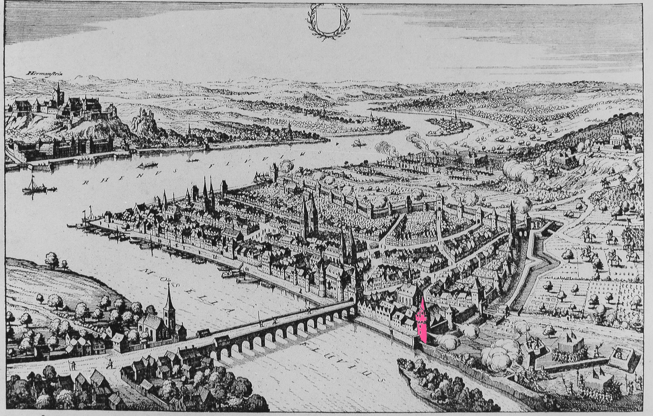 Picture from Image: Ko1632.png // Ochsenturm in Koblenz